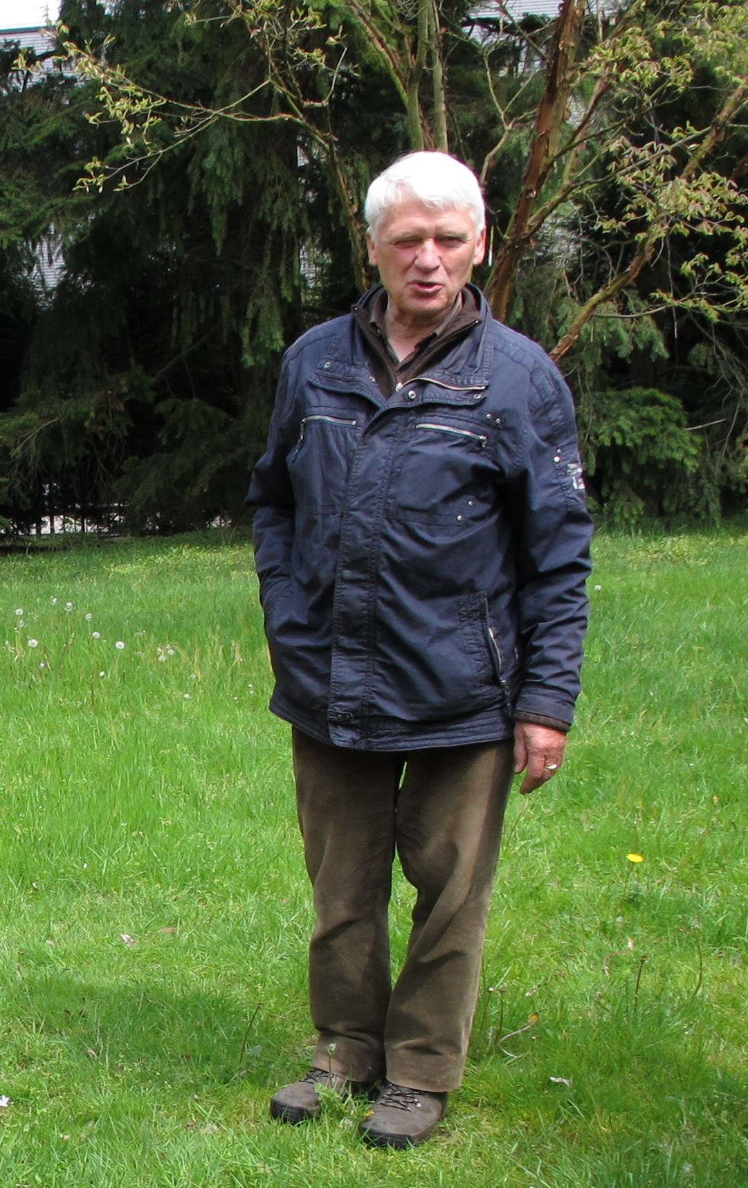 Piet de Jong, Dutch dendrologist